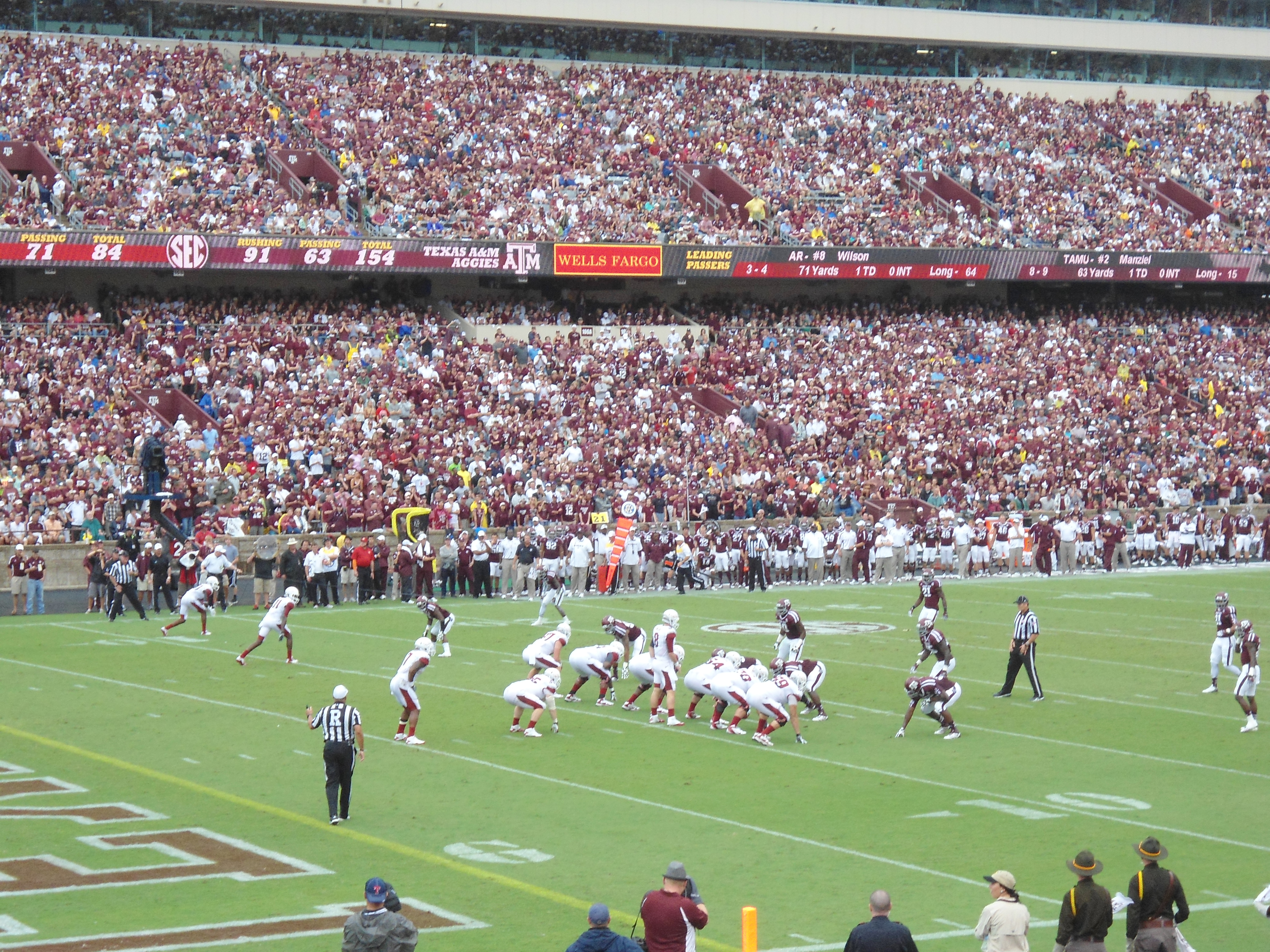 Arkansas Razorbacks vs the Texas A&M Aggies, Kyle Field, College Station, TX.